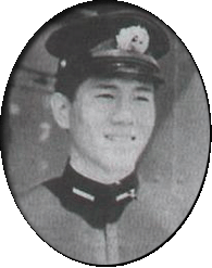 Ensign Junichi Sasai in blue Navy Uniform.